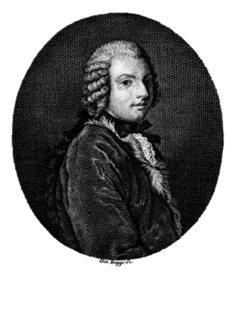 Francesco Algarotti's Portrait, from his Book of Essays